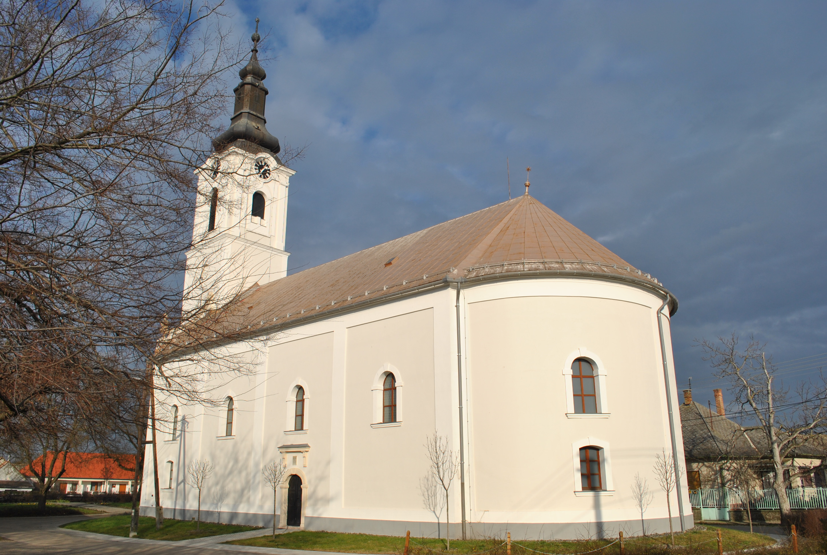 Church of Madocsa This is a photo of a monument in Hungary, Identifier: 8664